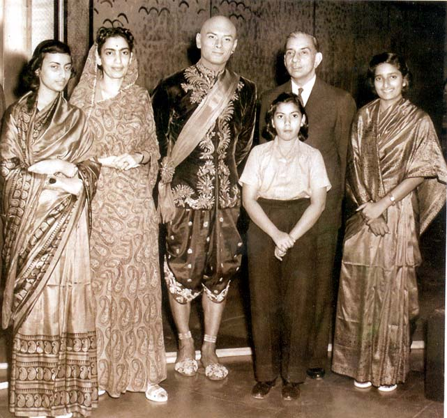 personal collection